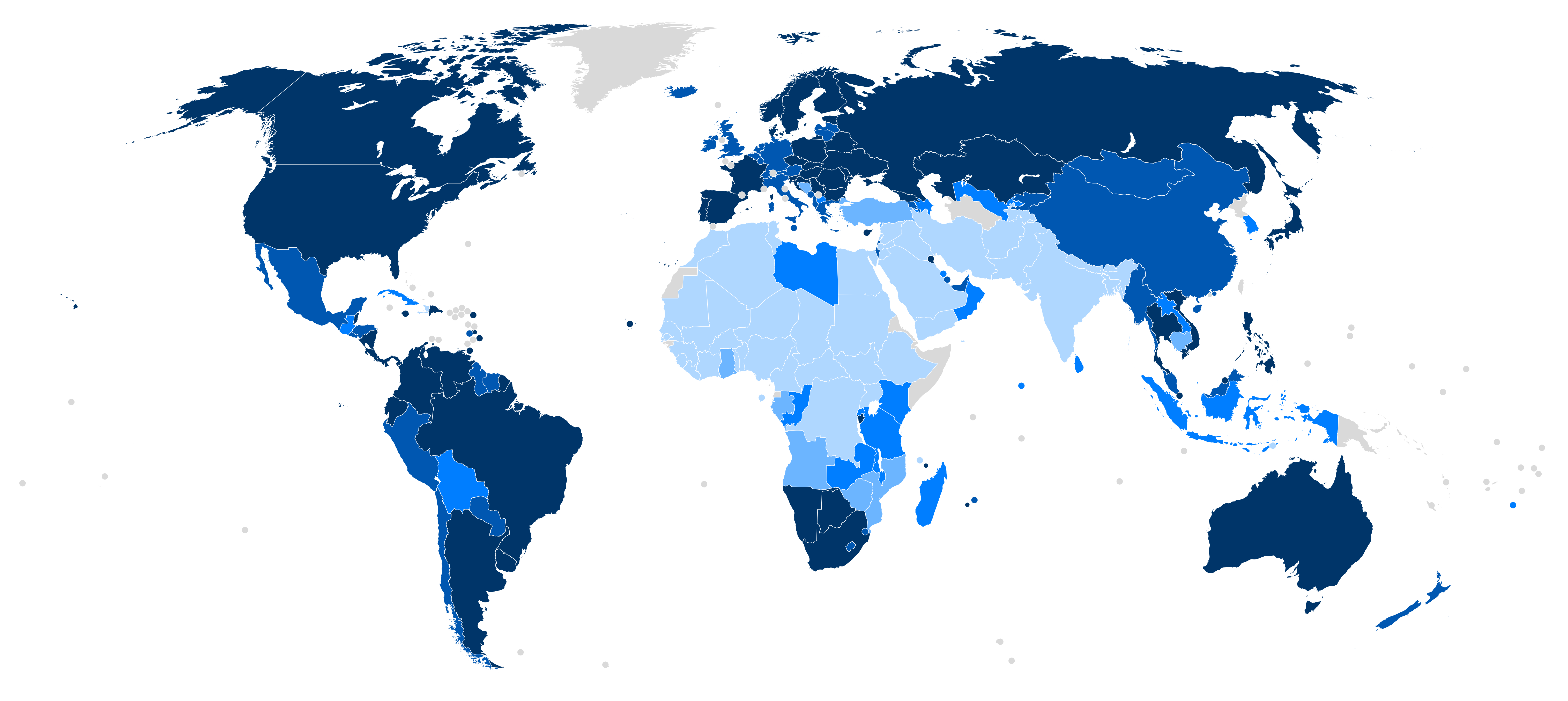 A choropleth map showing countries/territories by their Gender Development Index (GDI) score based on data collected in 2018, published by UNDP in 2019. Countries are grouped into five groups, from 1 (closest to gender parity: “high equality in HDI achievements between women and men”) to 5 (furthest from gender parity). Grouping takes equally into consideration gender gaps favouring males and those favouring females (Technical Notes 2019). group 1: GDI above 0,9751 = gap below 02,5 % = high equality: 53 countries group 2: GDI above 0,9501 = gap below 05,0 % = medium-high equality: 39 countries group 3: GDI above 0,9251 = gap below 07,5 % = medium equality: 22 countries group 4: GDI above 0,9001 = gap below 10,0 % = medium-low equality: 8 countries group 5: GDI below 0,9001 = gap above 10,0 % = low equality: 44 countries Data unavailable (23 countries)